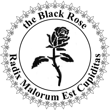 The official emblem of the anarchy symbol, the Black Rose, with the quotation "Radix Malorum Est Cupiditas" (Latin for: Greed is the root of all evils).